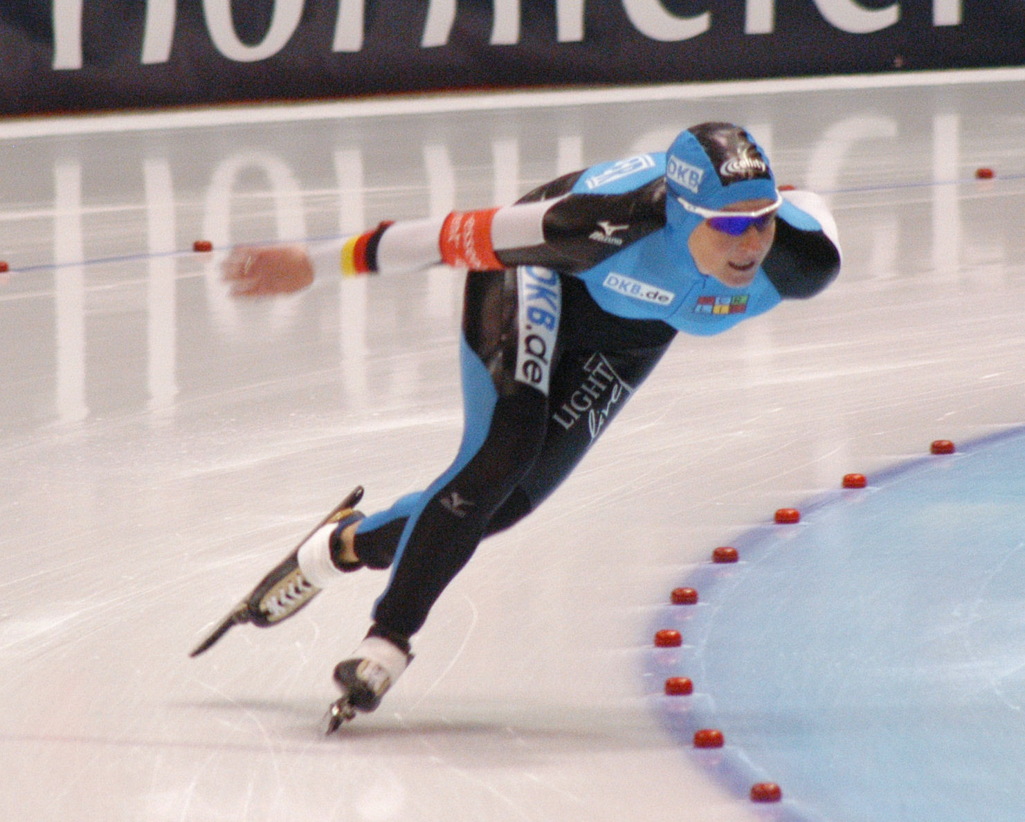 Claudia Pechstein (GER) at a world cup speedskating in Heerenveen, the Netherlands.